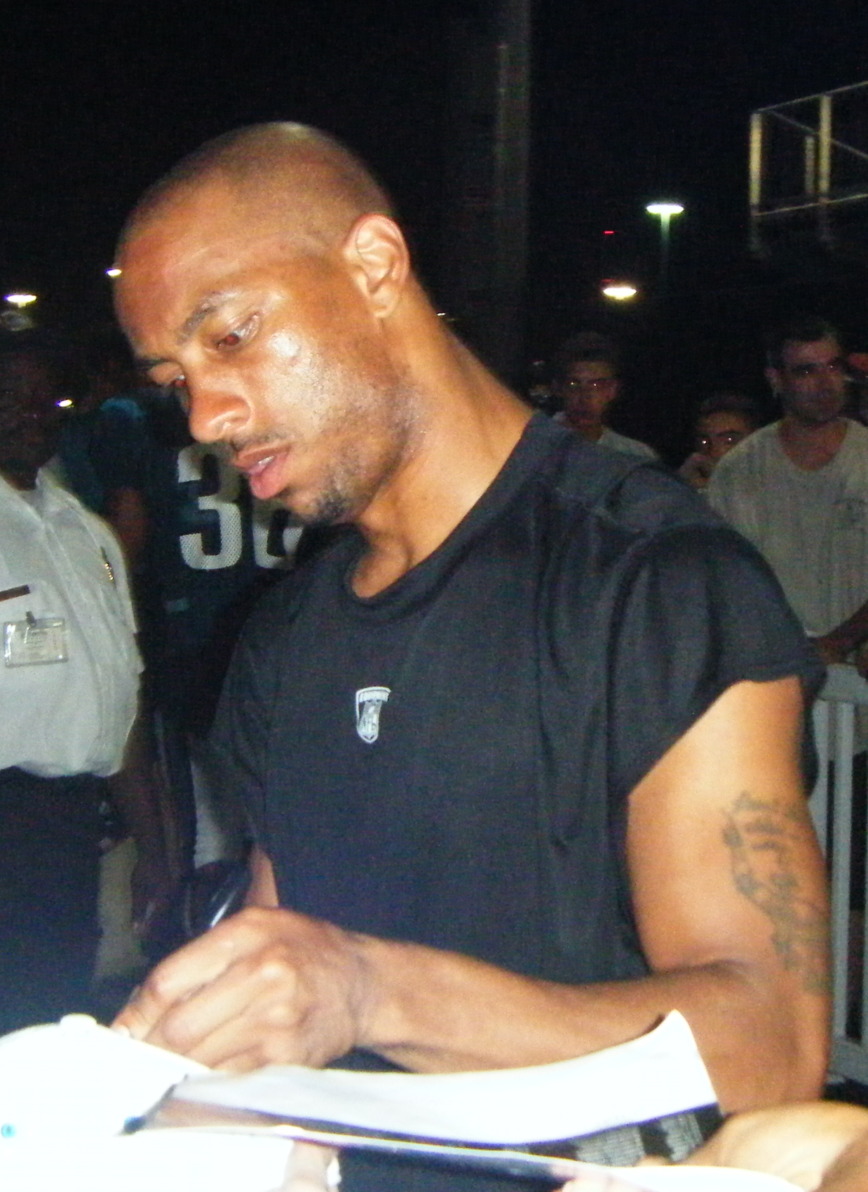 Dennis Northcutt, Jacksonville Jaguars wide receiver, signs an autograph after practice at Jacksonville Municipal Stadium.